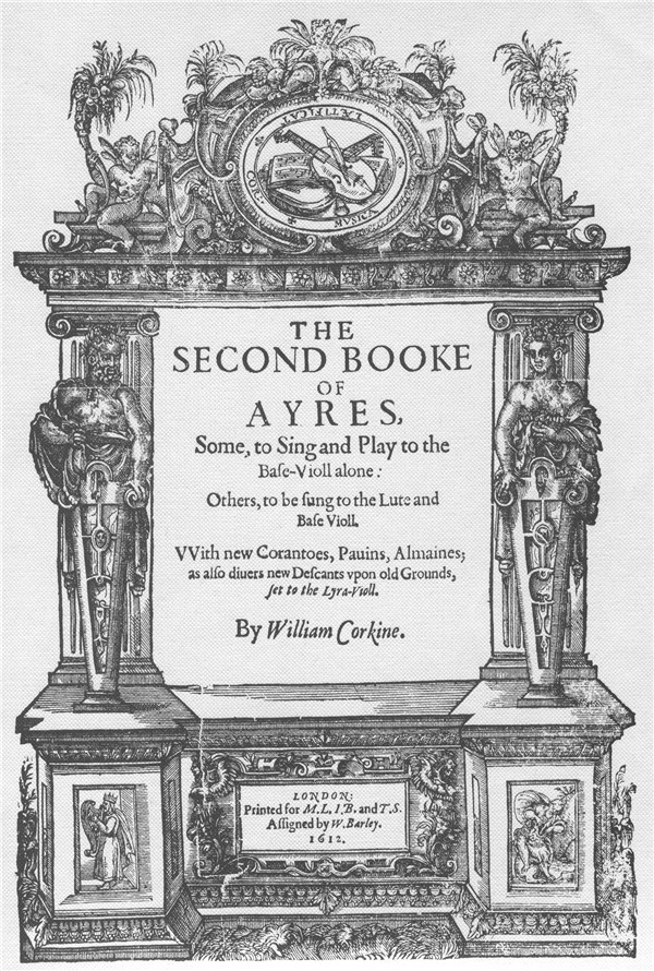 William Corkine - Second Book of Ayres, some to sing and play to the Basse-Violl alone. Out of copyright by about 300 years :P